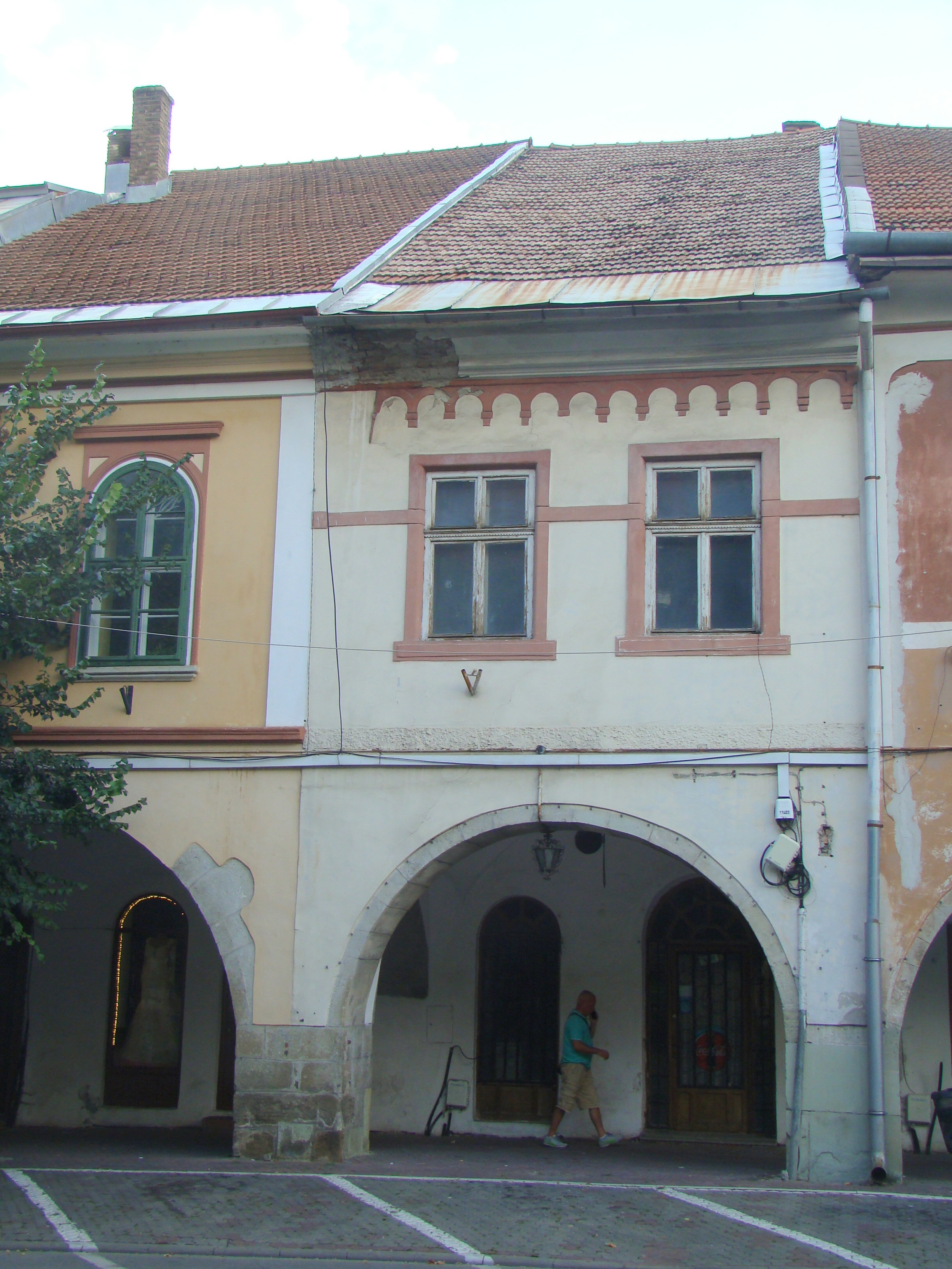 Houses, historic monuments, in Bistrița, Piața Centrală 13-24